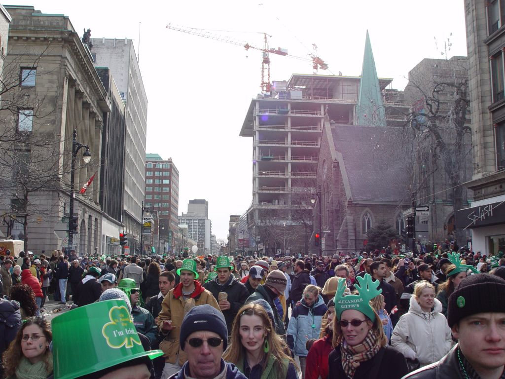 Montreal 2006 Saint Patrick's day Parade on Saint Catherine's Street